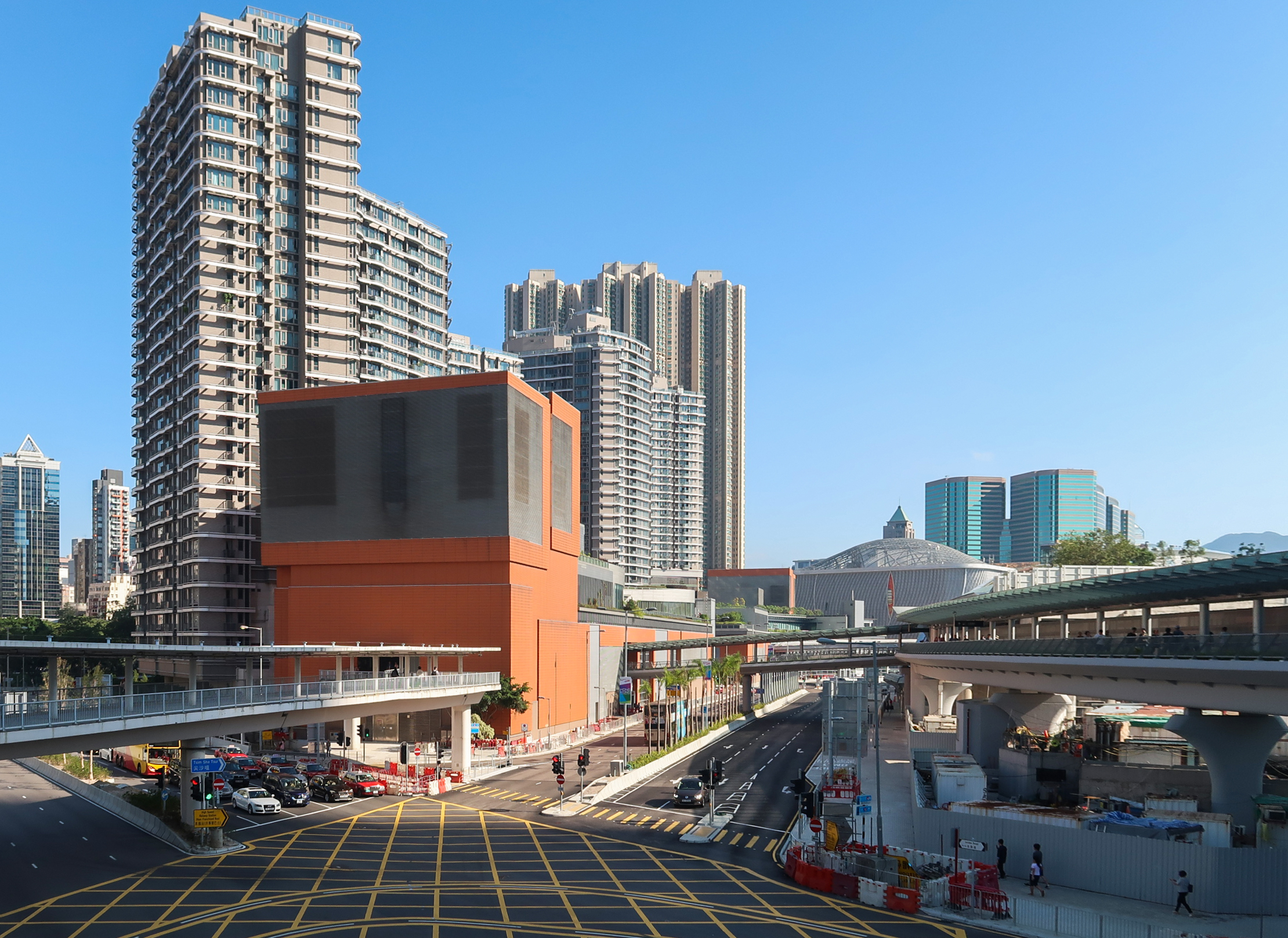 Austin Station Exterior